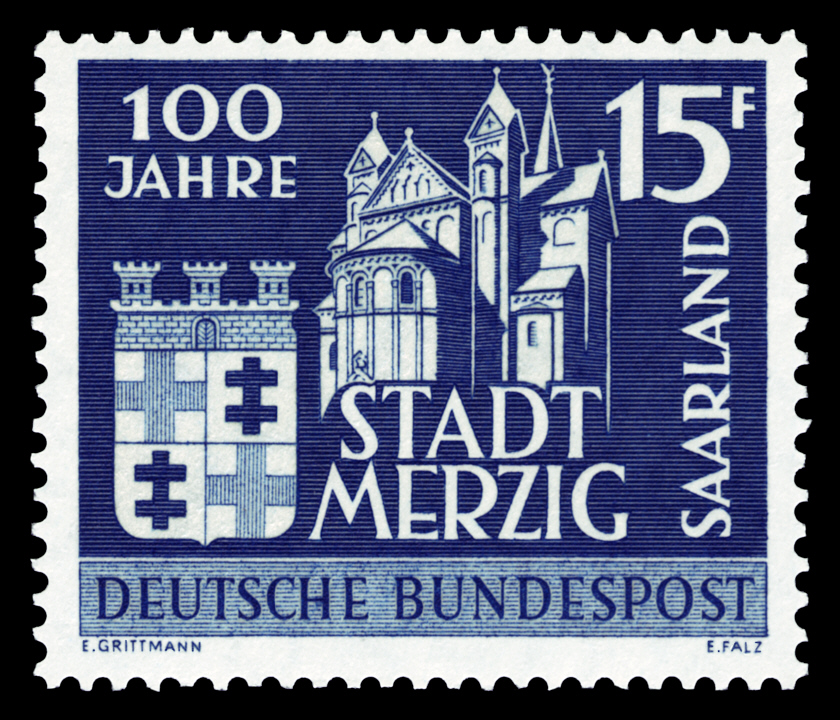 100 Jahre Stadt Merzig